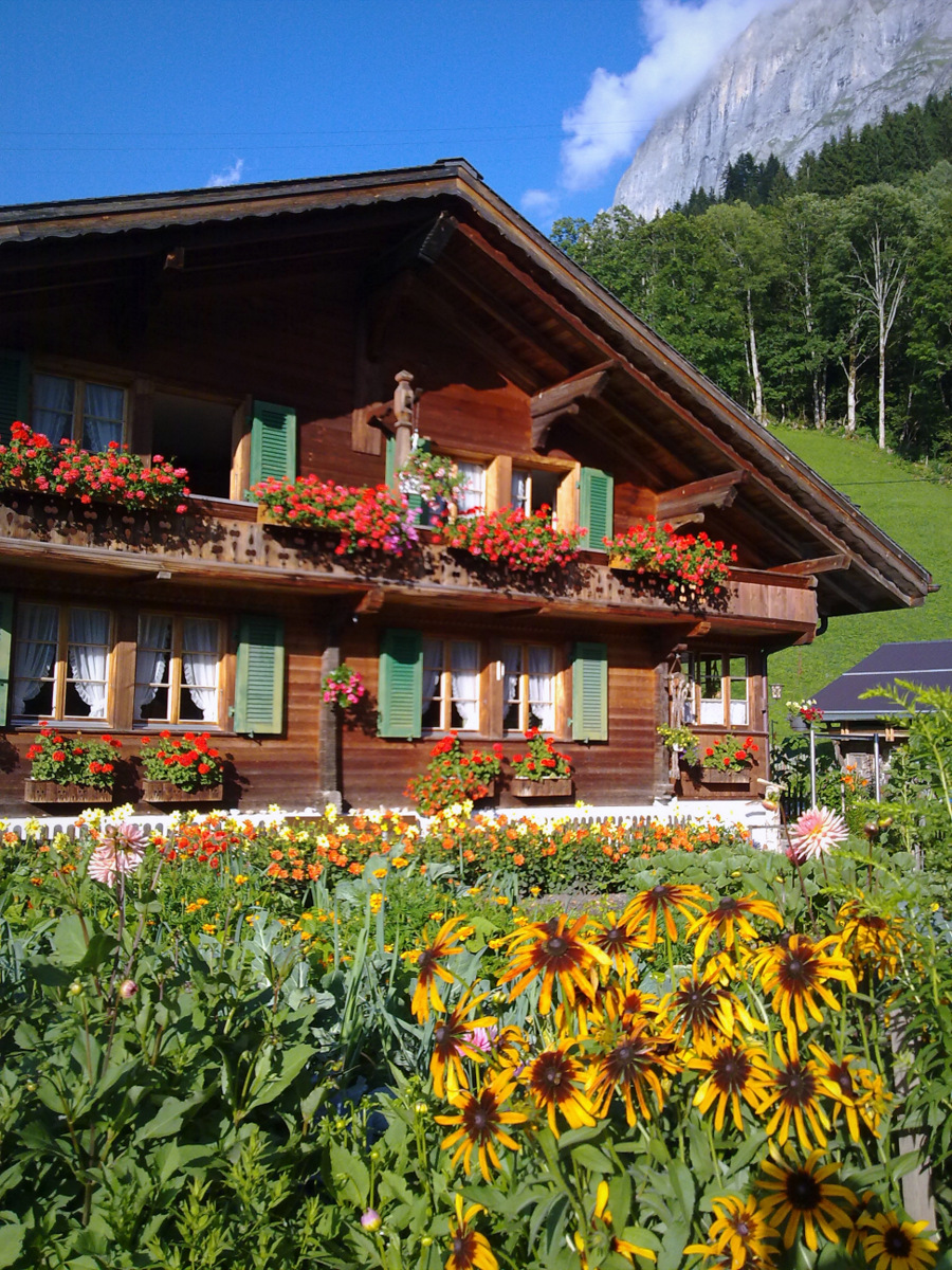 Chalet in Bernese Oberland, Switzerland